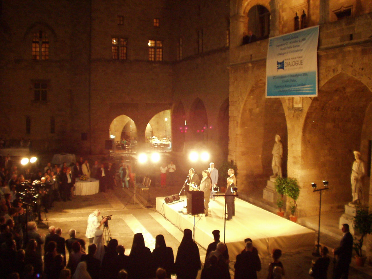 Vladimir Yakunin opens Dialogue of Civilizations forum in the Palace of the Grand Master of the Knights of Rhodes in 2006